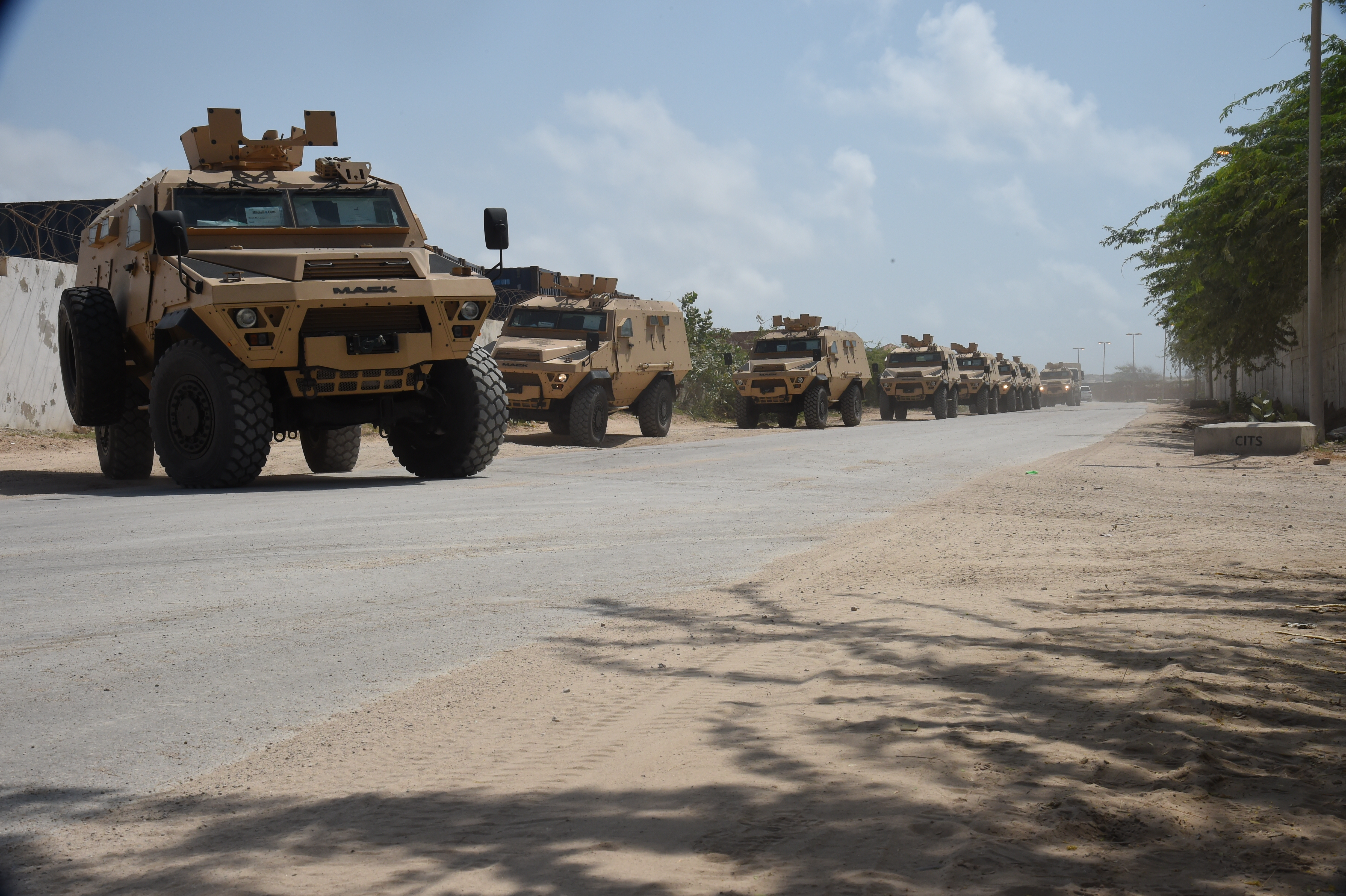 U.S. military forces delivered nearly 20 vehicles and two storage containers to members of the Uganda People’s Defence Force at Mogadishu International Airport, Mogadishu, Somalia, Sept., 25, 2017. U.S. forces’ mission in the Horn of Africa is to assist partner nations of AMISOM strengthen Somalia’s defenses against local violent extremist organizations. (U.S. Air National Guard photo by Tech. Sgt. Andria Allmond)